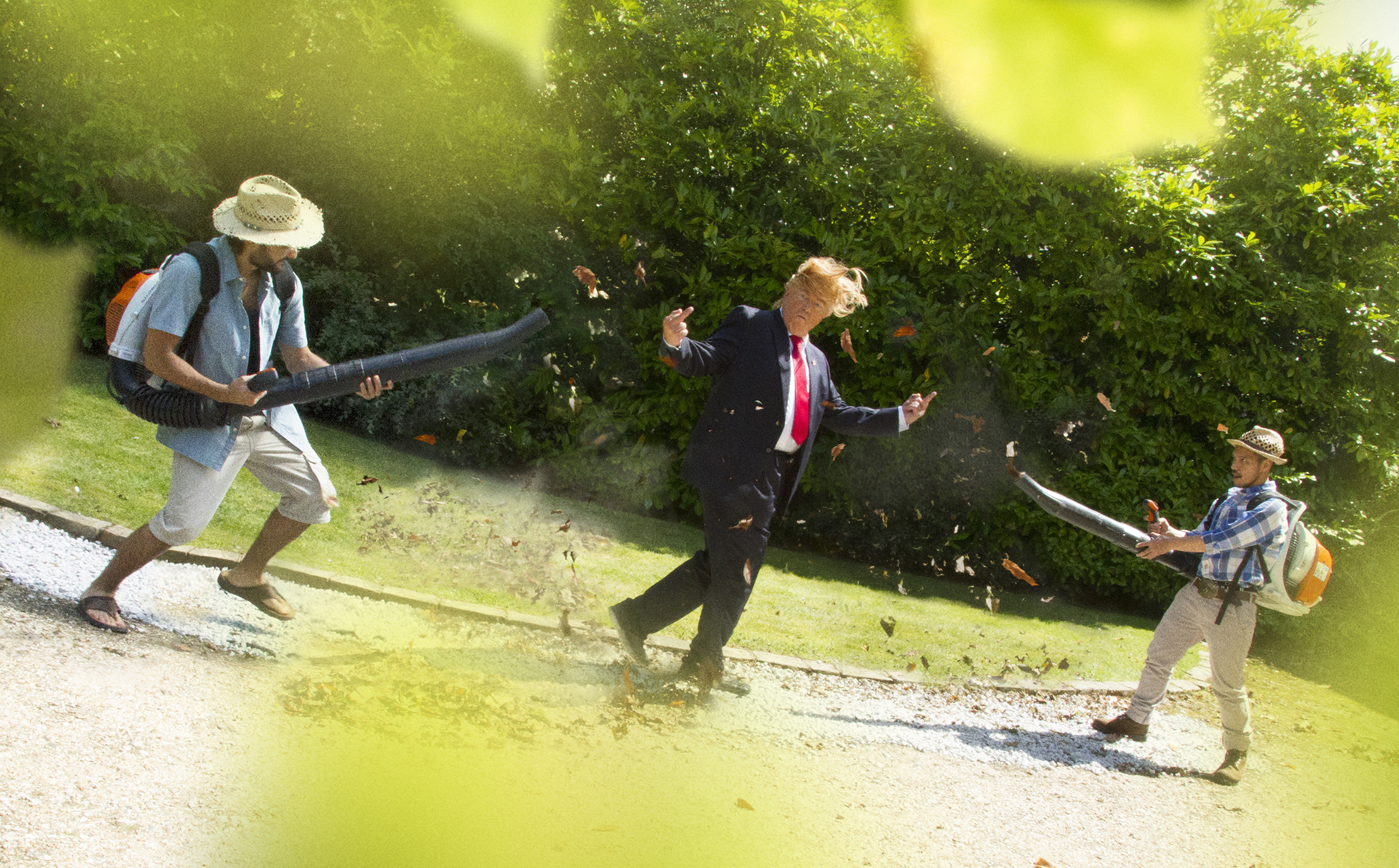 KR IMG 3760 hair blow lb MIDDLE FINGERS - work of Alison Jackson with look alike